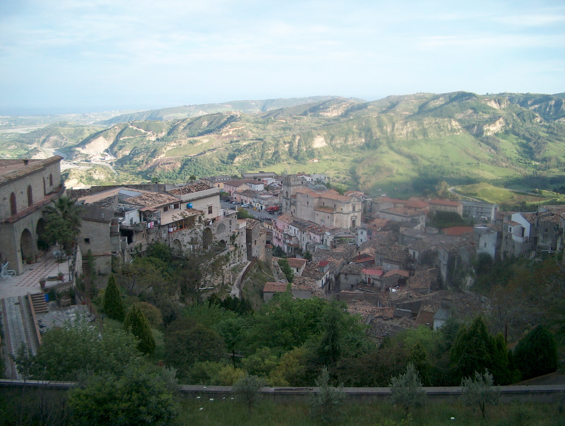 A typical view of an old village located in a small valley in Calabria, south-west Italy.